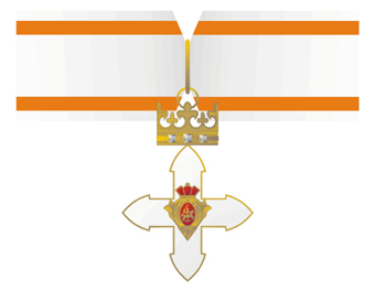 Order of Vytautas the Great